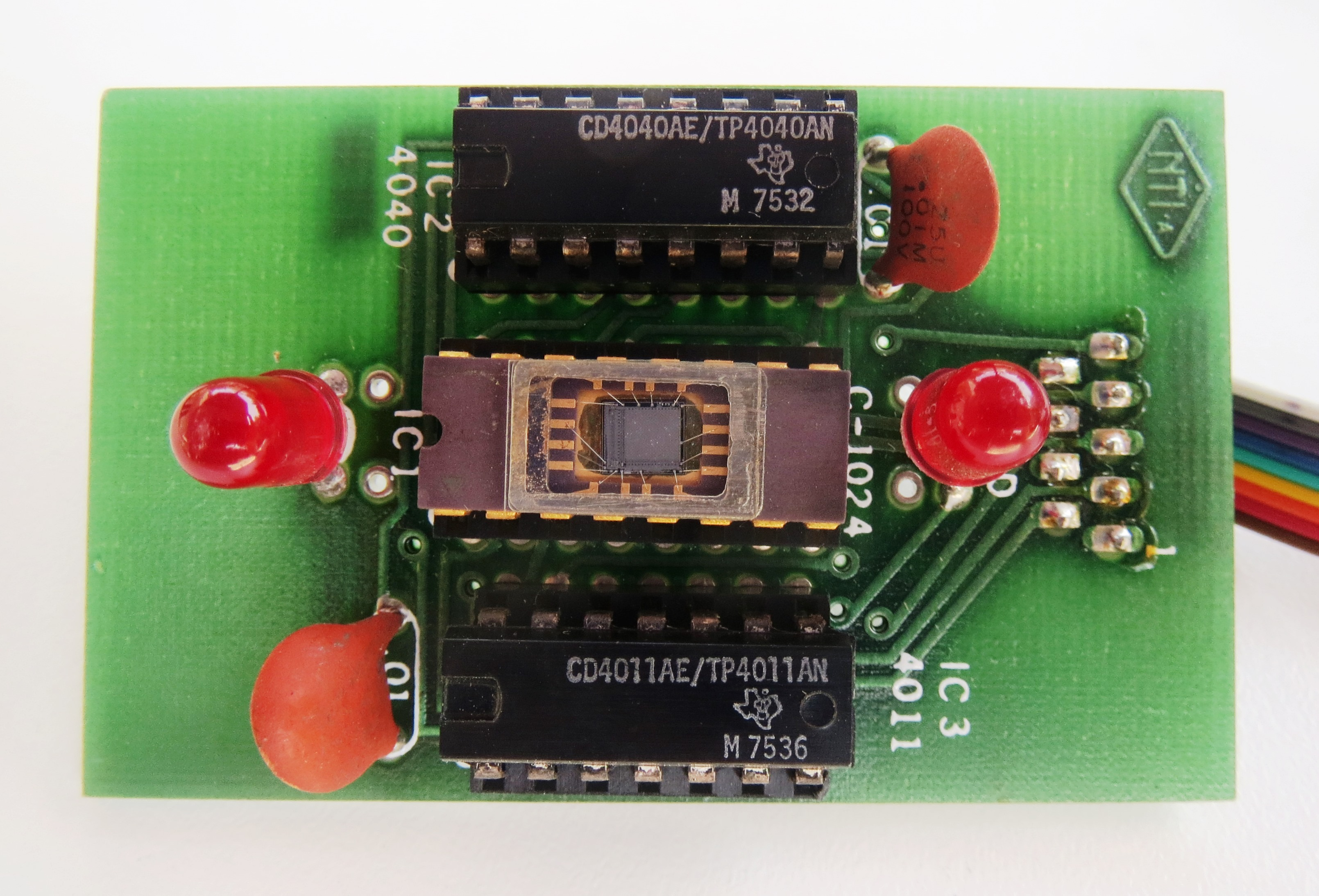 Cromemco Cyclops Camera Board 1 (sensor module). Includes 1024-element image sensor and two red LED bias lights.